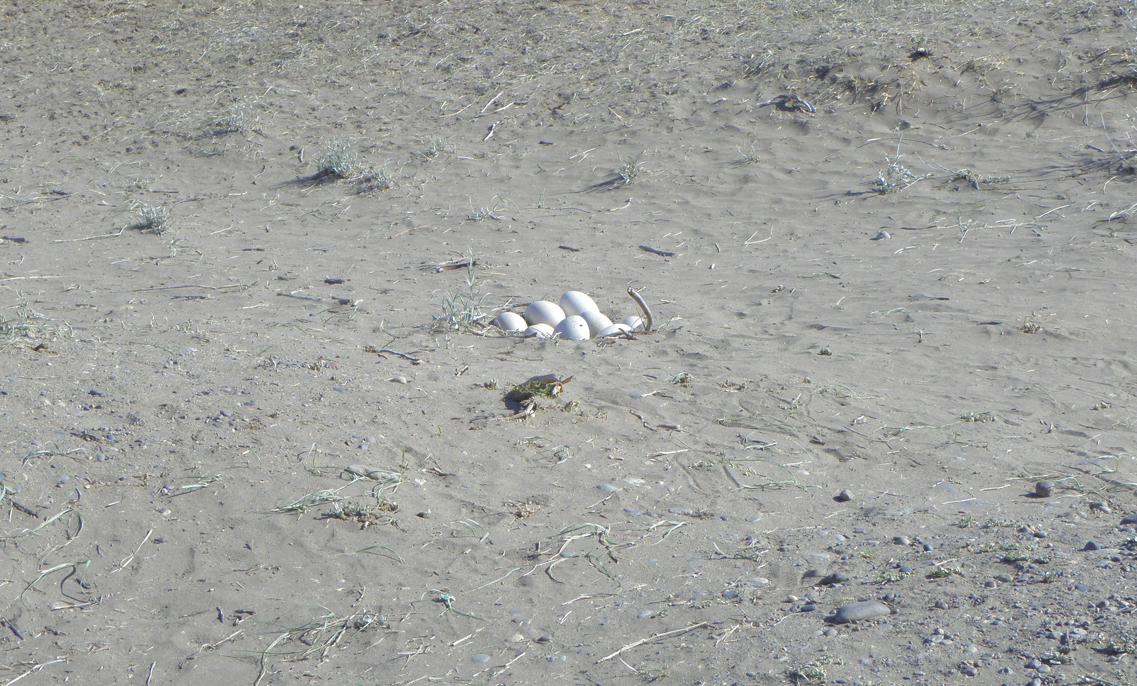 Nest of Patagonian Lesser Rhea.